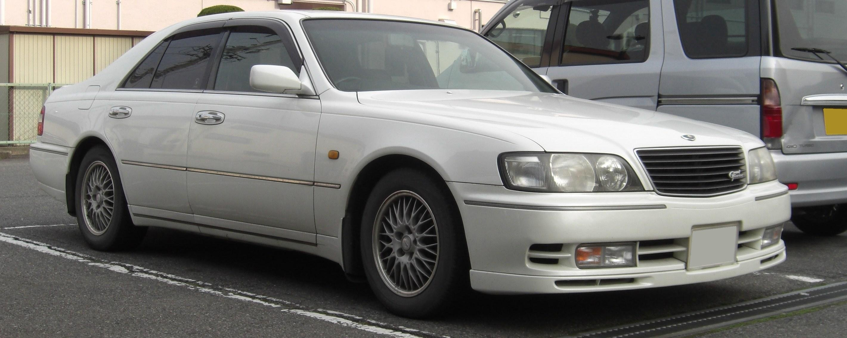 NISSAN Cima